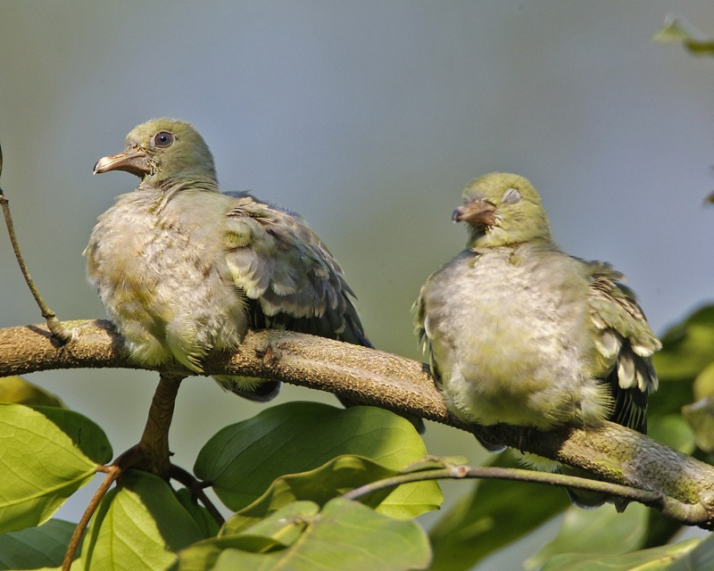 Pink-necked Green-Pigeon - juveniles Treron vernans Singapore Botanic Garden 30th. March 2008 690V3231